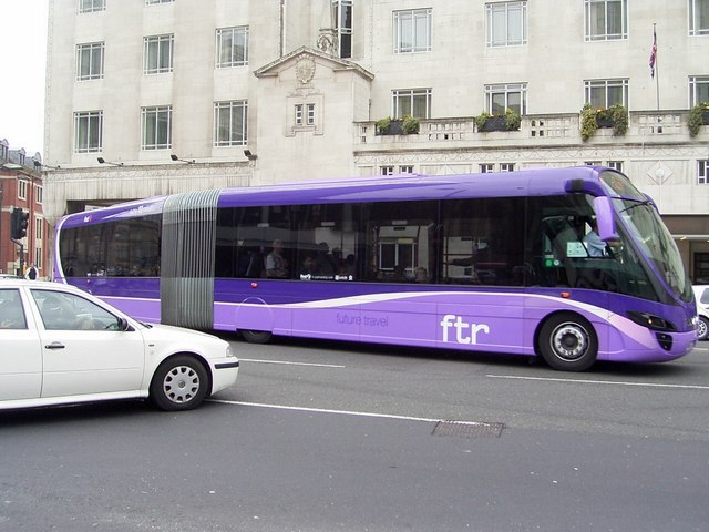 An ftr bus in Leeds, England. It is pictured heading west on Wellington Street outside Leeds railway station, en route to the terminus at Pudsey. It's completing a turn onto Wellington Street from New Station Street, which is partly covered by the left hand wing of the white building, the Queens Hotel.